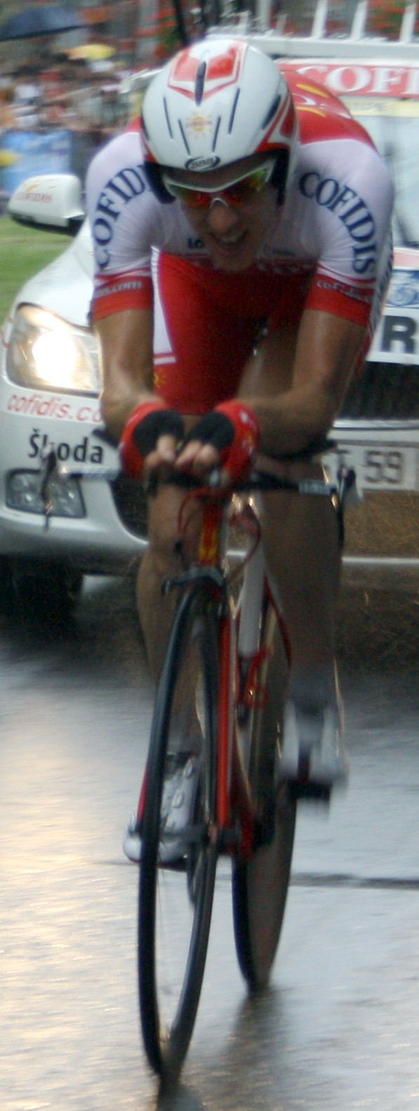 Damien Monier at the prologue of the 2010 Tour de France in Rotterdam